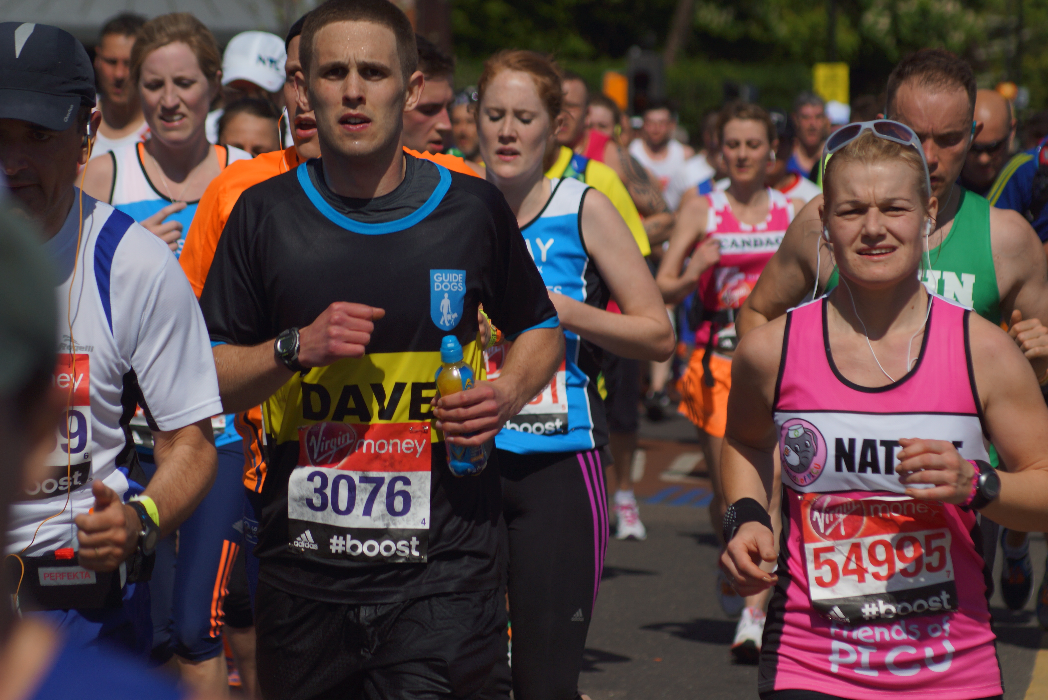 Photograph taken by Julian Mason on 13th April 2014 during the London Marathon. Location Westferry Road on the Isle of Dogs close to Arnhem Place and just before Millwall Outer Dock.